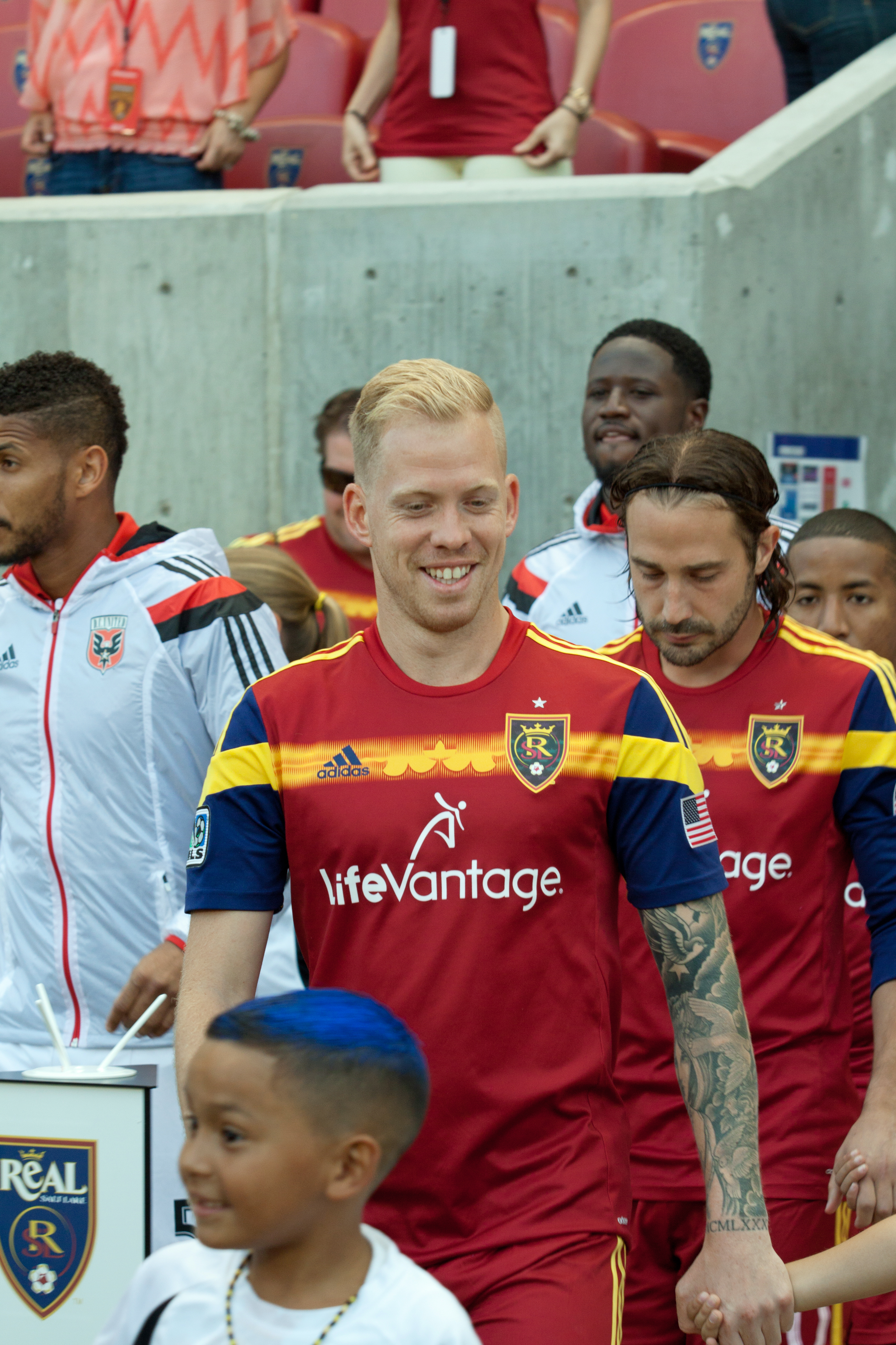 Luke mullholland